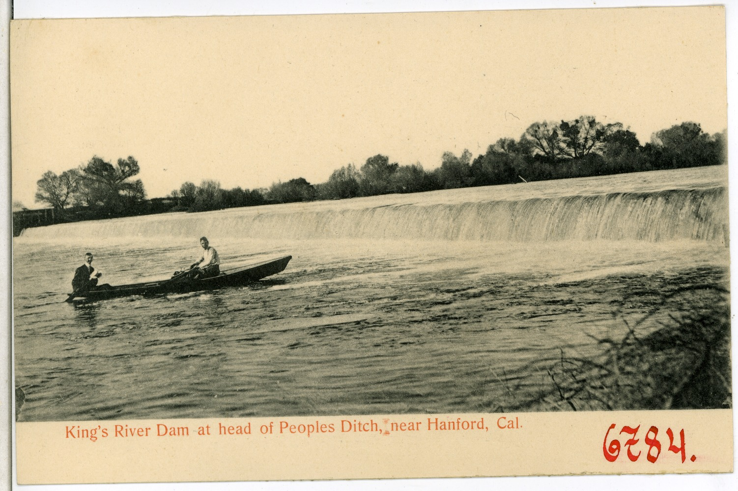 This postcard is from publisher Brück & Sohn in Meißen ( This postcard has a unique number 06784 and is available in a higher resolution at the publisher. This images was uploaded in a cooperation project between Wikipedians and the publisher.